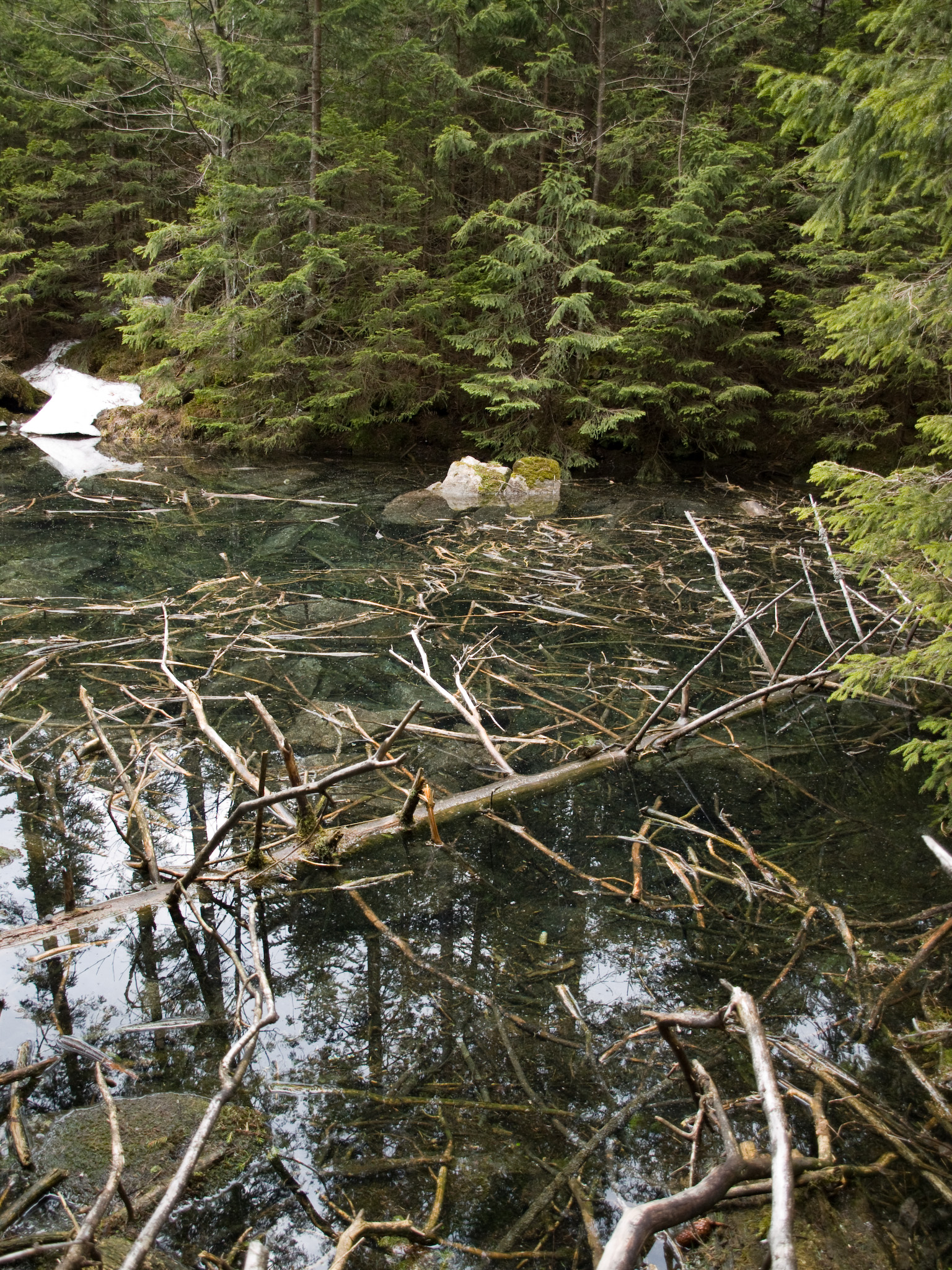 Kasprowy Stawek